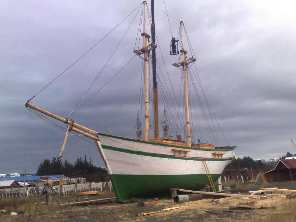 Nao Victoria Museum Punta Arenas Chile Schooner Ancud Replica last adjustments on main mast